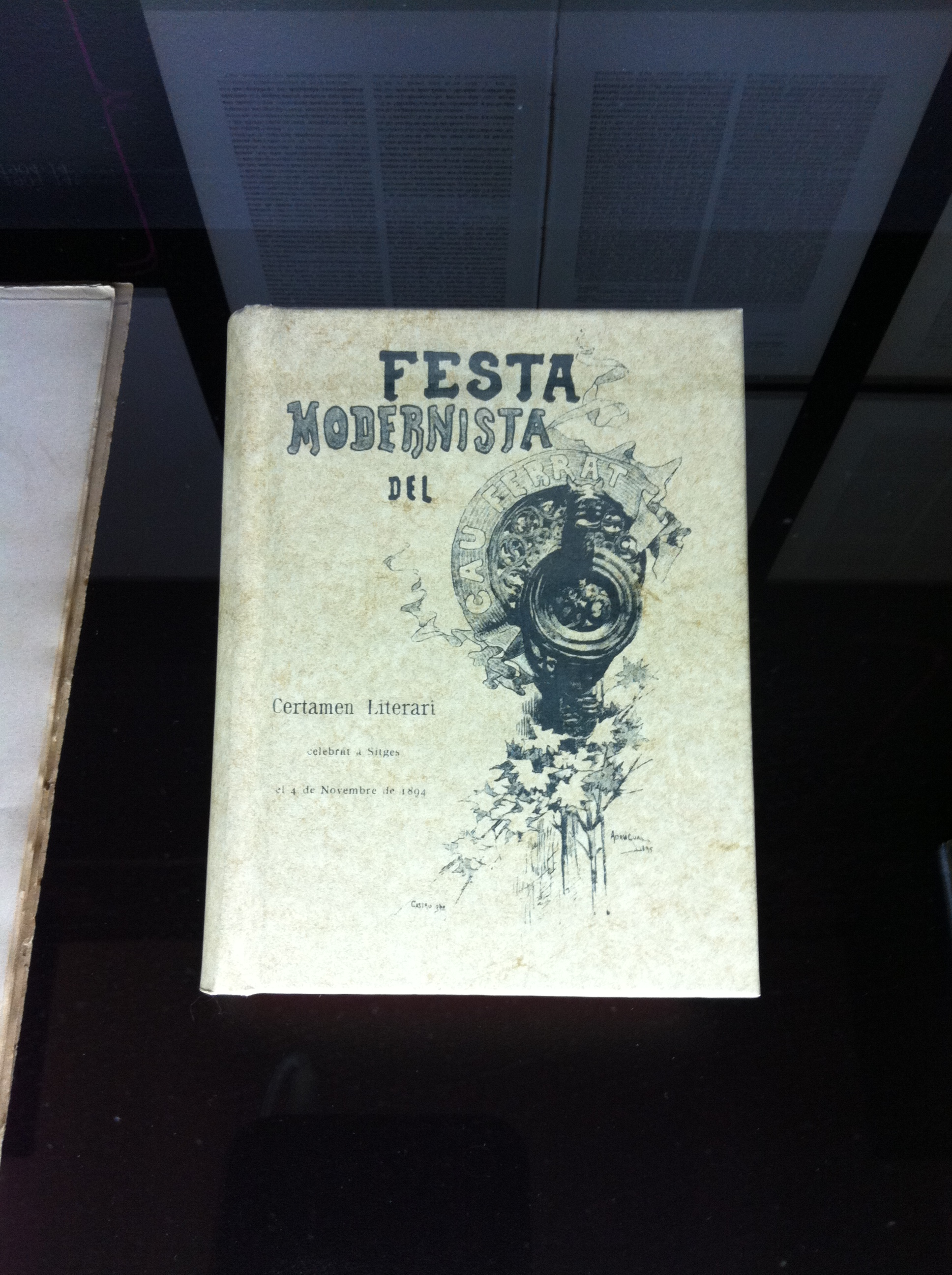 Joan Maragall, la paraula il·luminada: exhibit held at Palau Moja in Barcelona related to Joan Maragallf